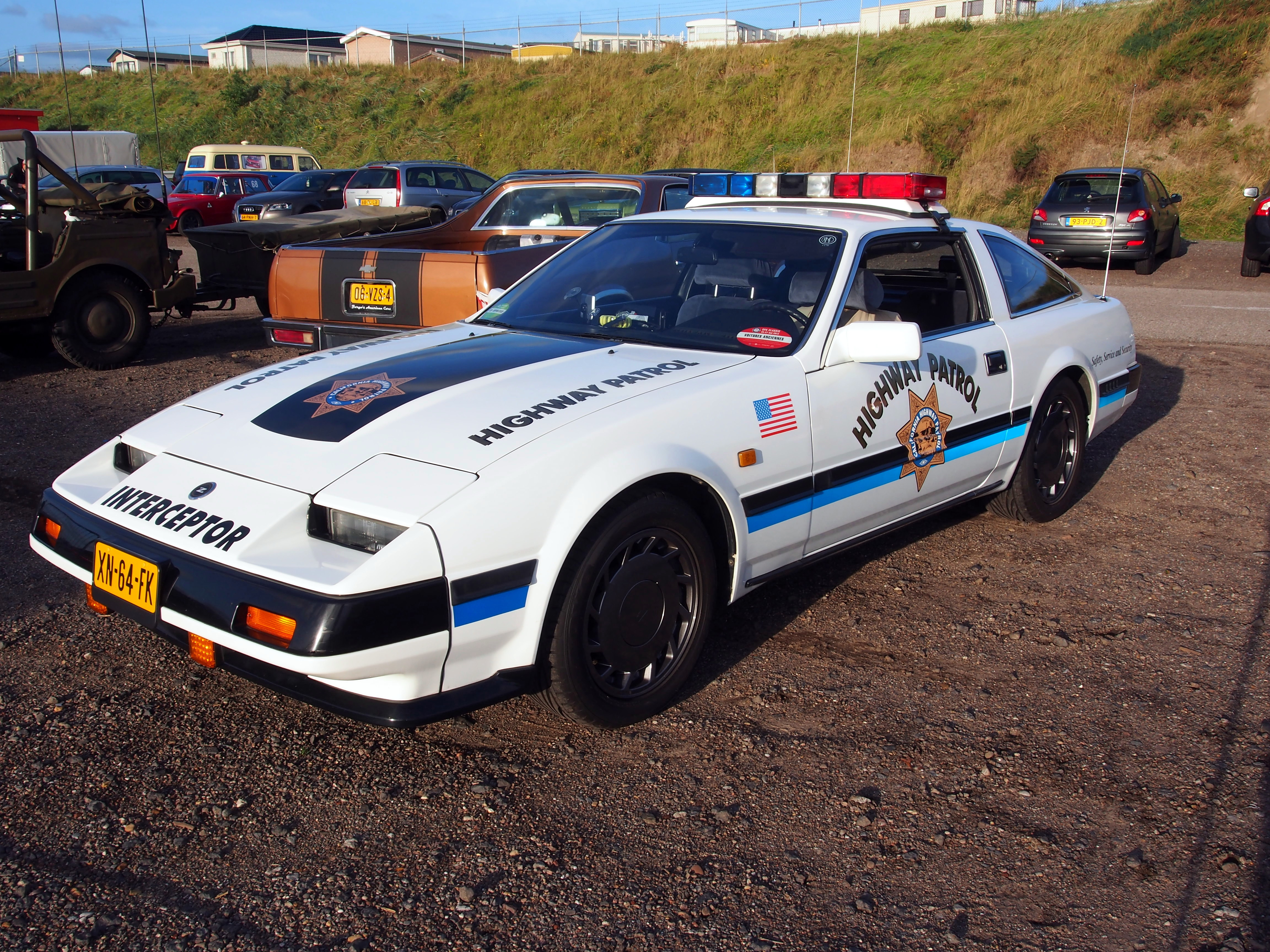 Photographed at the Nationaal Oldtimer Festival Zandvoort 2012. 1989 Nissan 300ZX Automatic